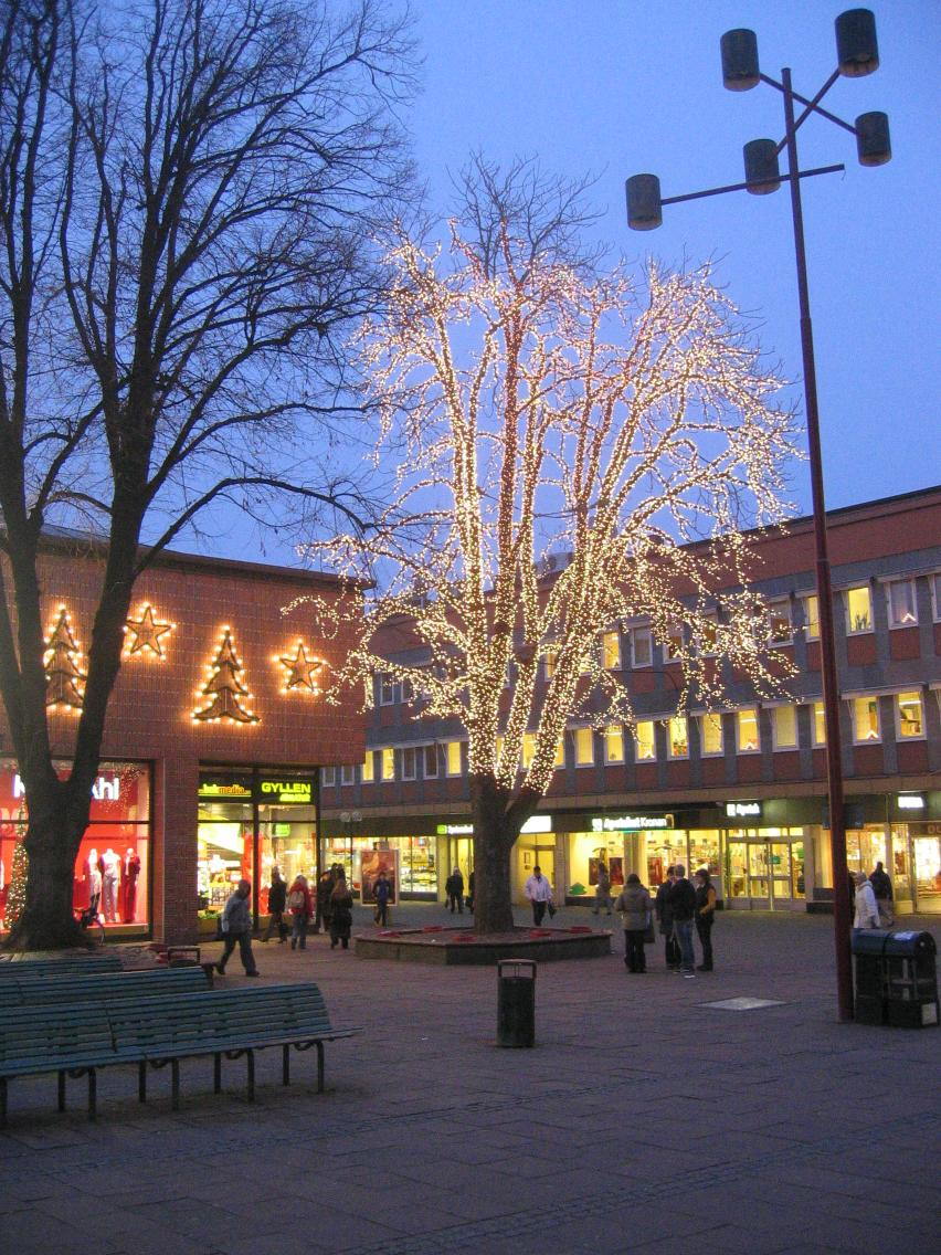 Gyllentorget, Linköping